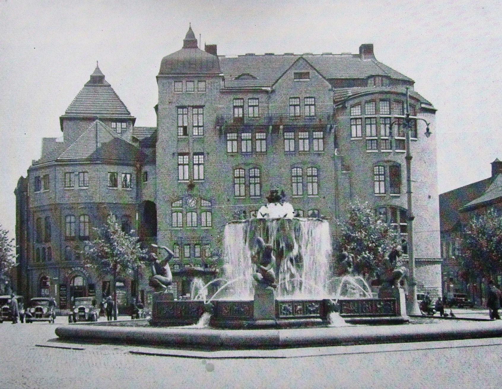 Picture of Göteborgs Arbetareförening's building in Göteborg